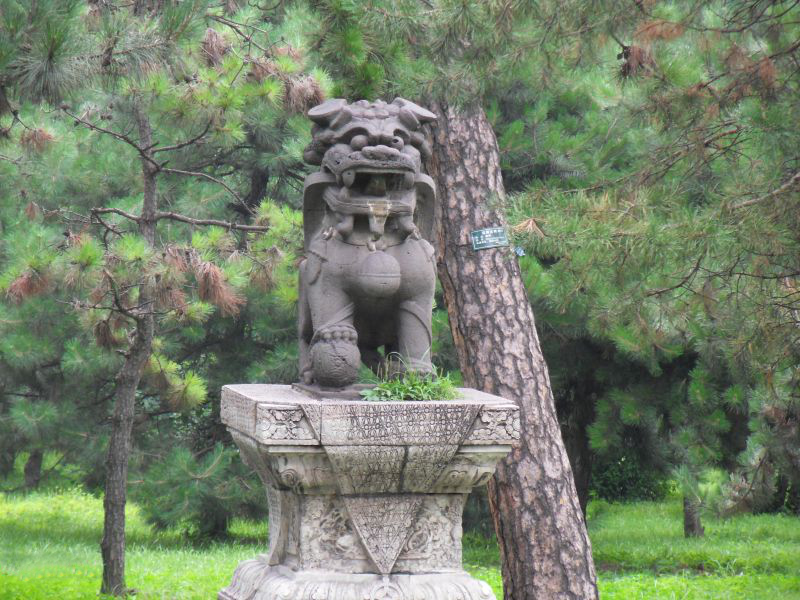 Qilin Guard in Fuling Tomb Shenyang source:owne.